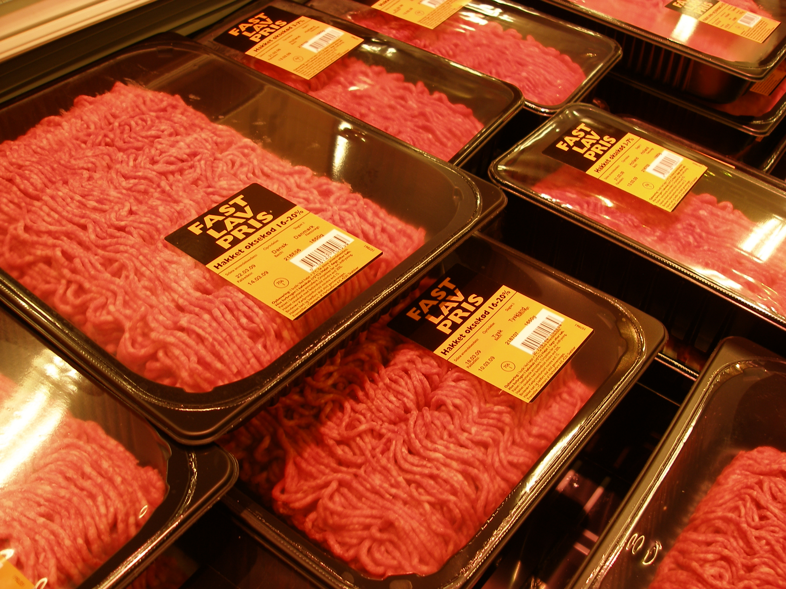 Minced beef in Danish supermarket